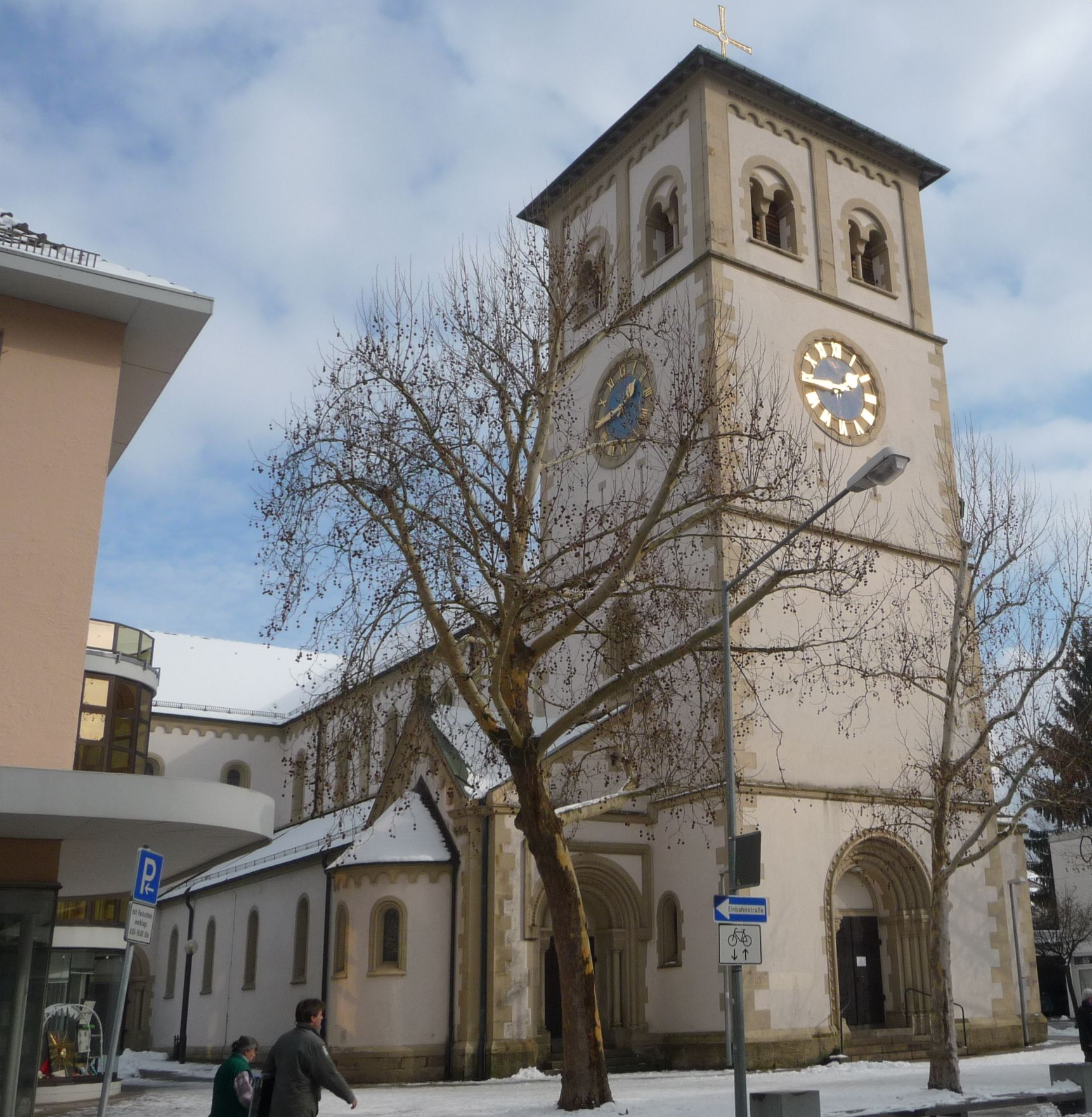 Gaggenau, Germany